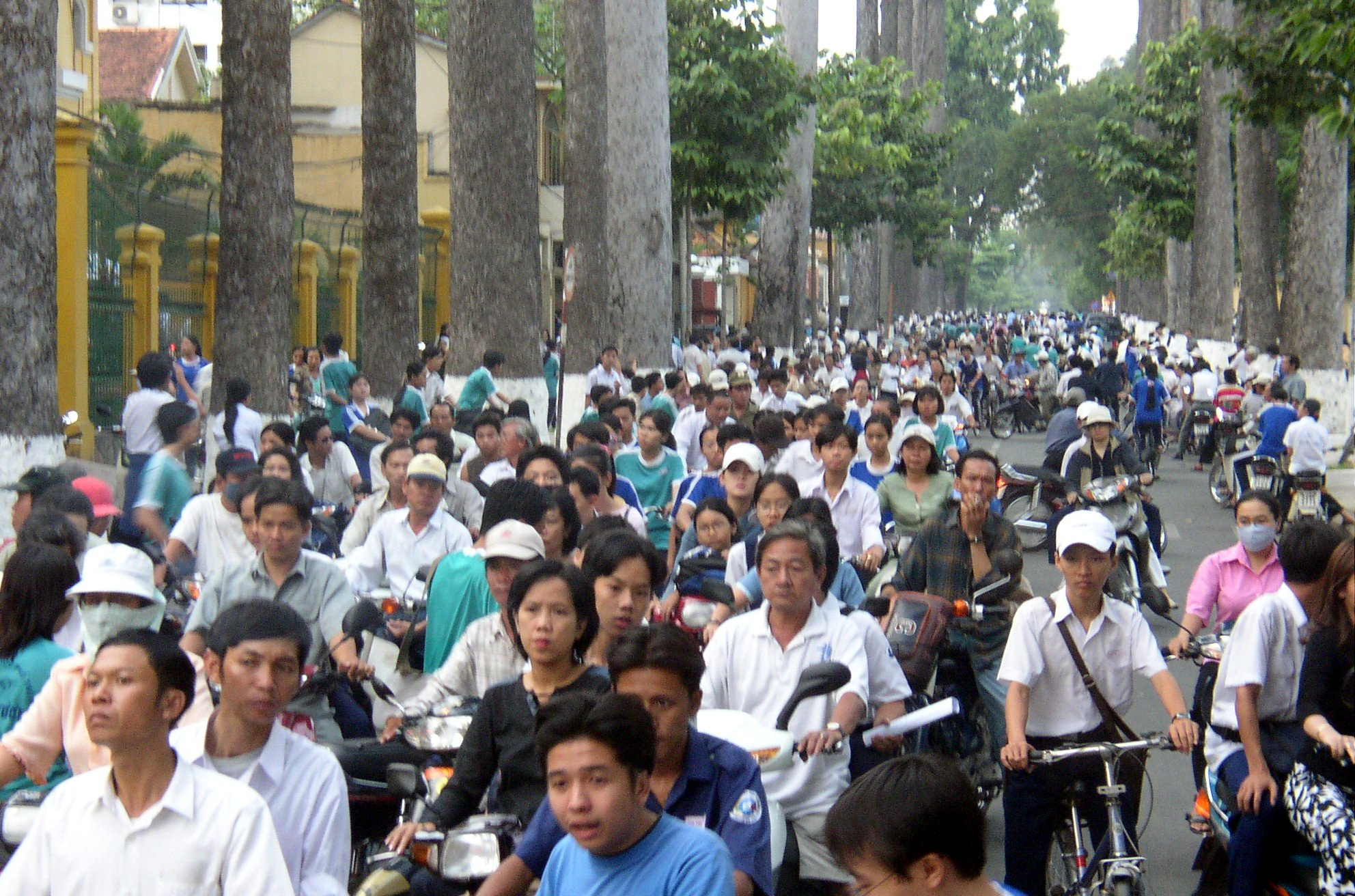 Traffic in Ho Chi Minh City, December 2003.